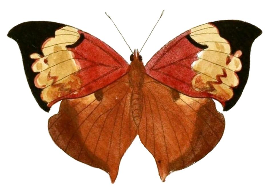 Plate CXIX F: "(Papilio) Itys" ( = Zaretis itys, iconotype?), see Funet In register missp. "ITUS"